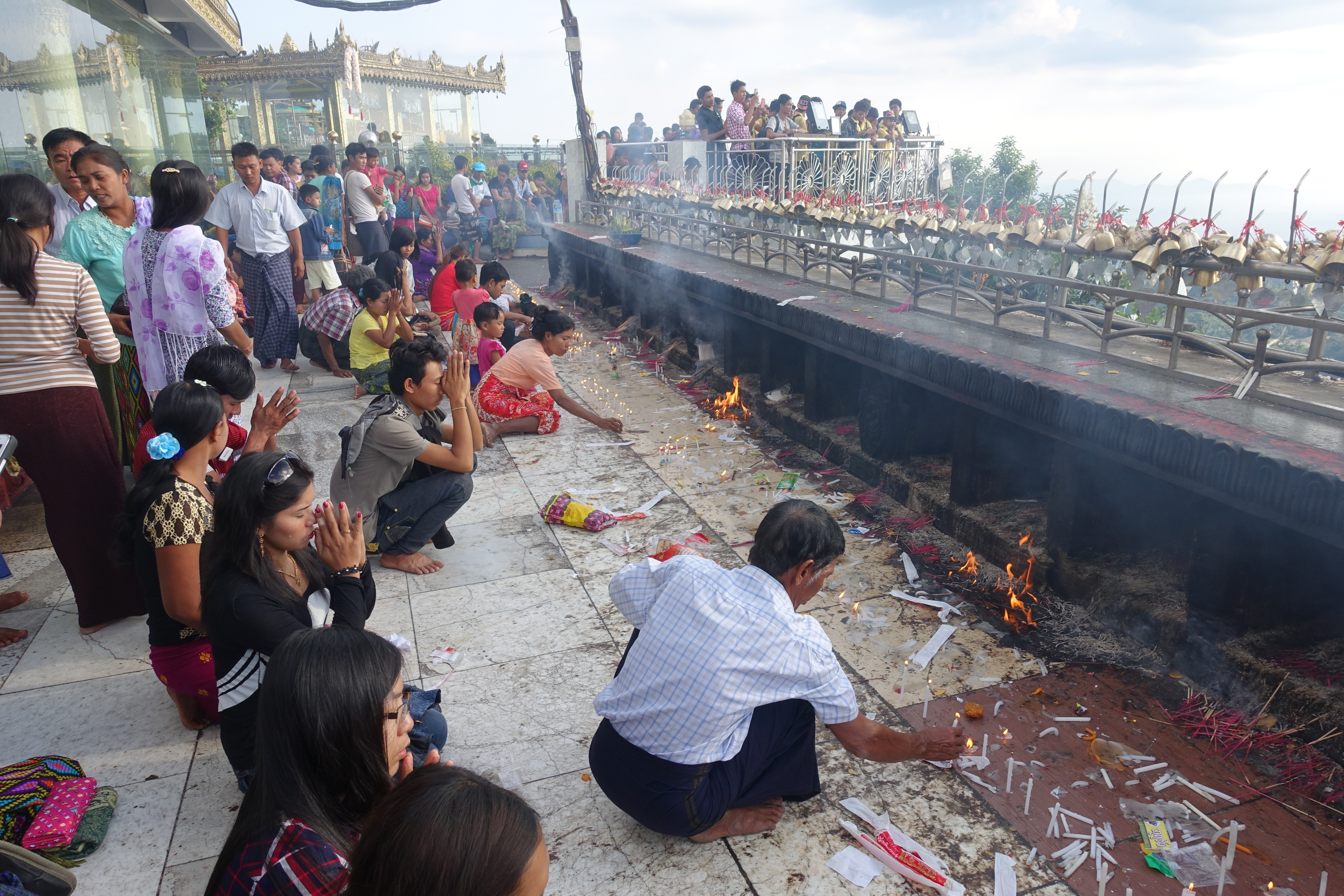 Golden Rock. Kyaiktiyo Pagoda. Pilgrim Season Chrismas 2015.